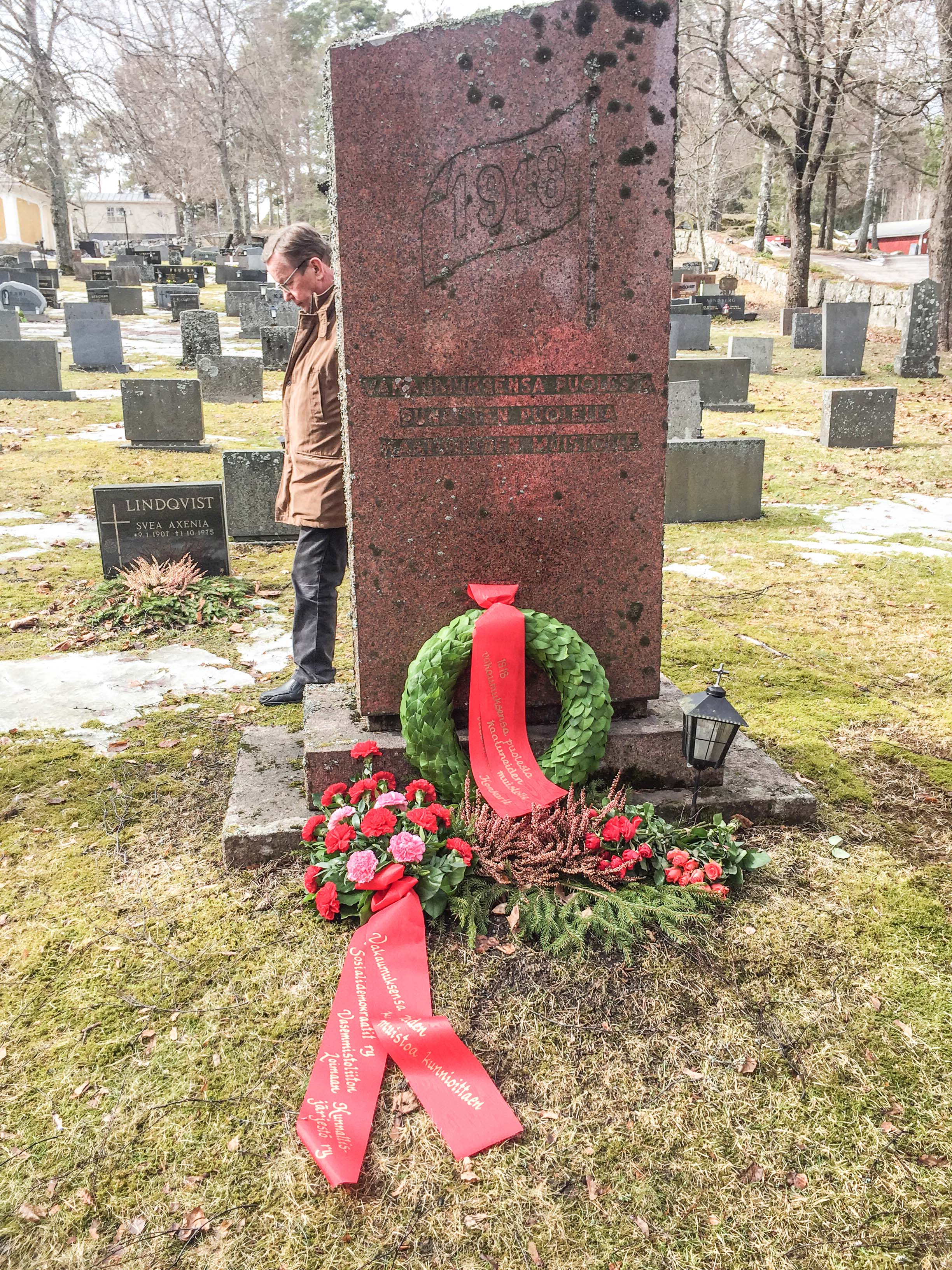 Commemorating reds in Nagu 1918